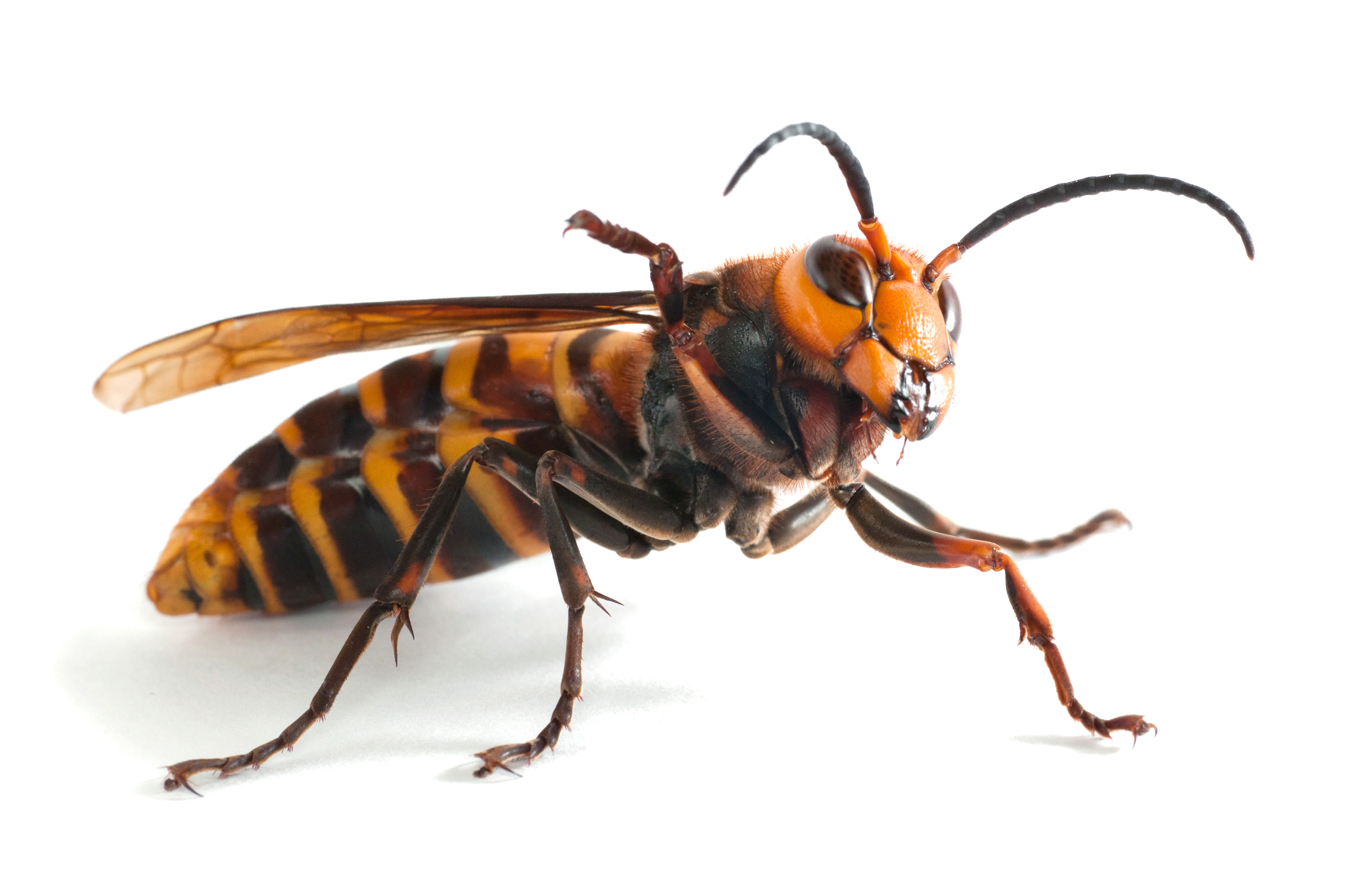 Male of Japanese giant hornet, Vespa mandarinia japonica